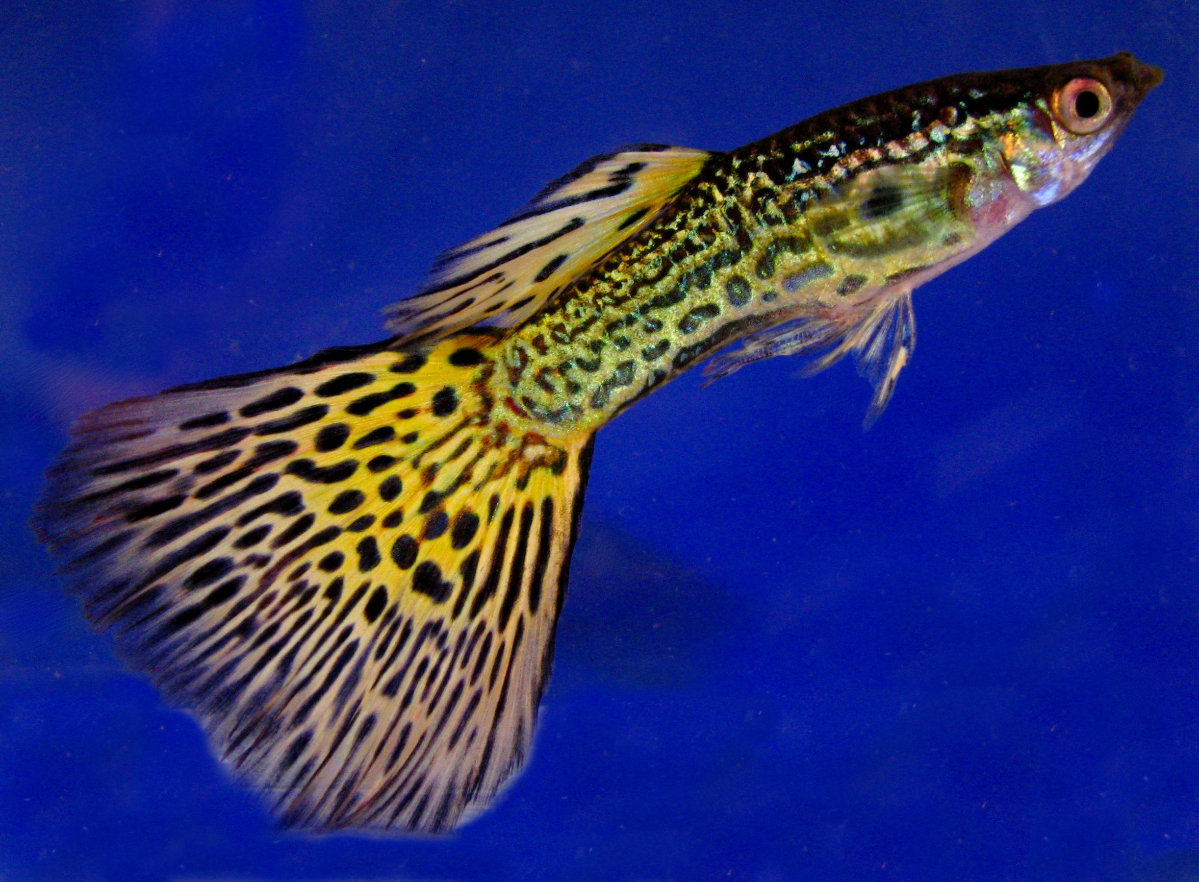 Male guppy (Poecilia reticulata)